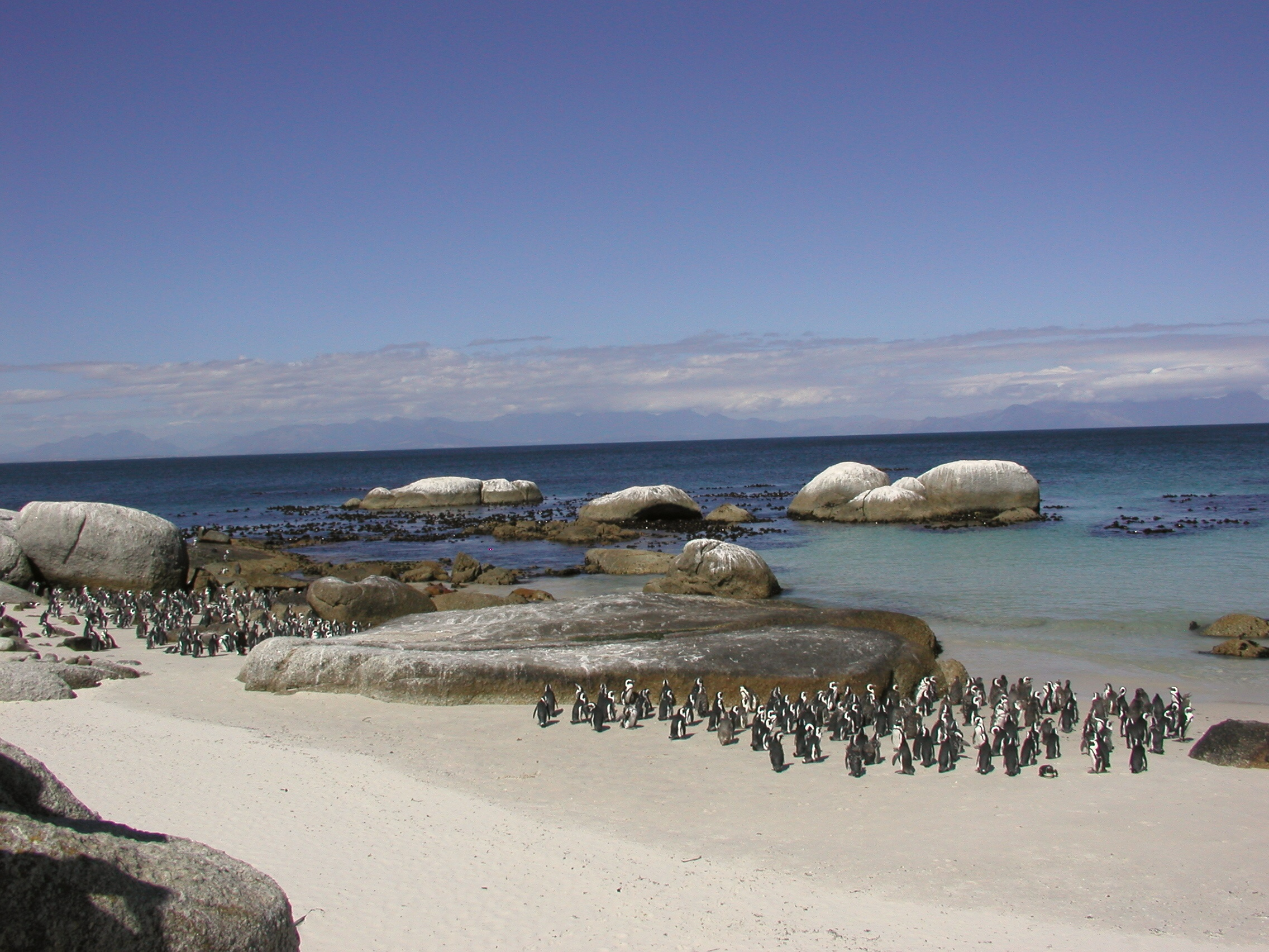 African Penguins Spheniscus demersus, Boulders Bay, Cape Town, South Africa